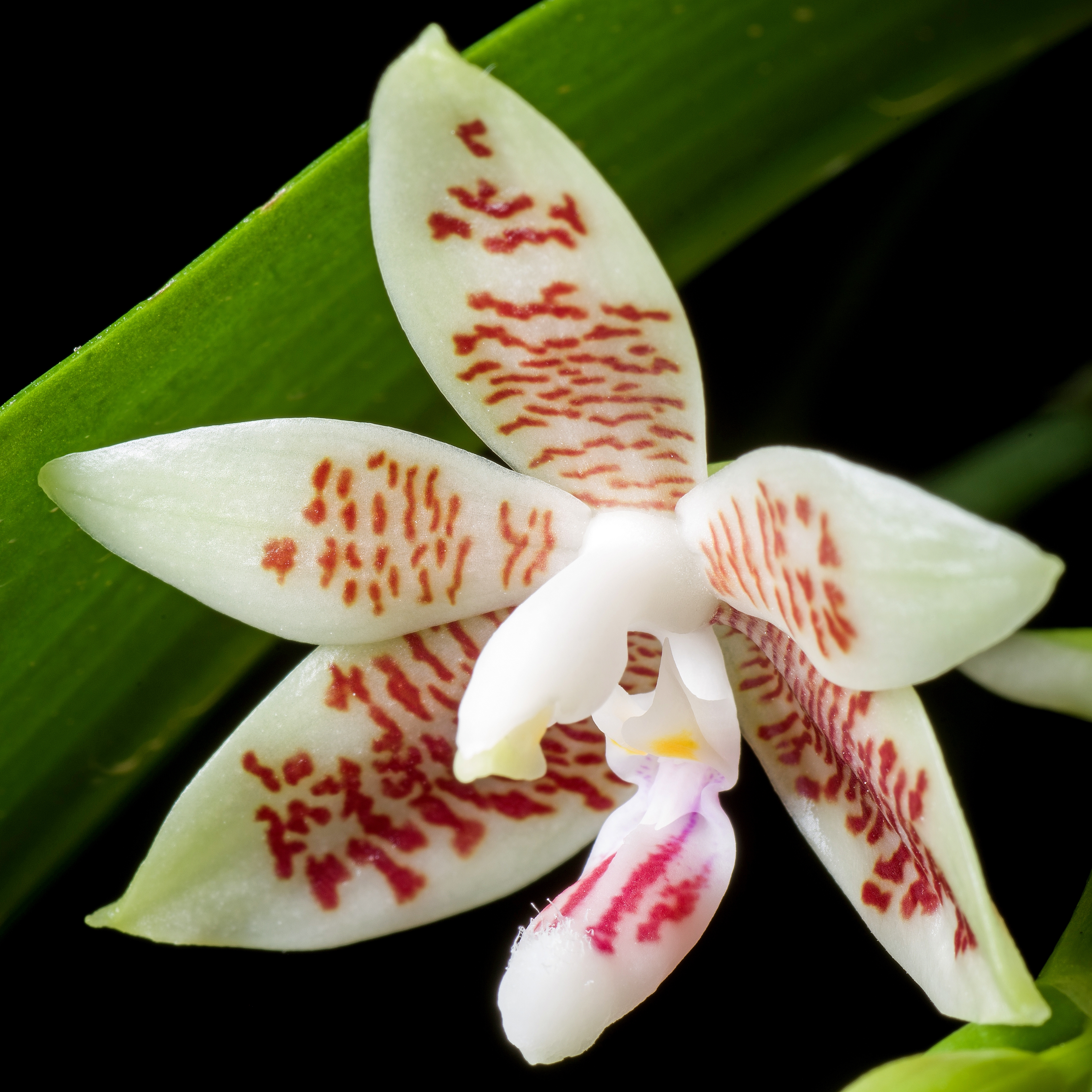 SUBGENUS Polychilos SECTION Zebrinae Pfitz (1889) Distribution: C. Sumatera (42 SUM) Lifeform: Epiphyte